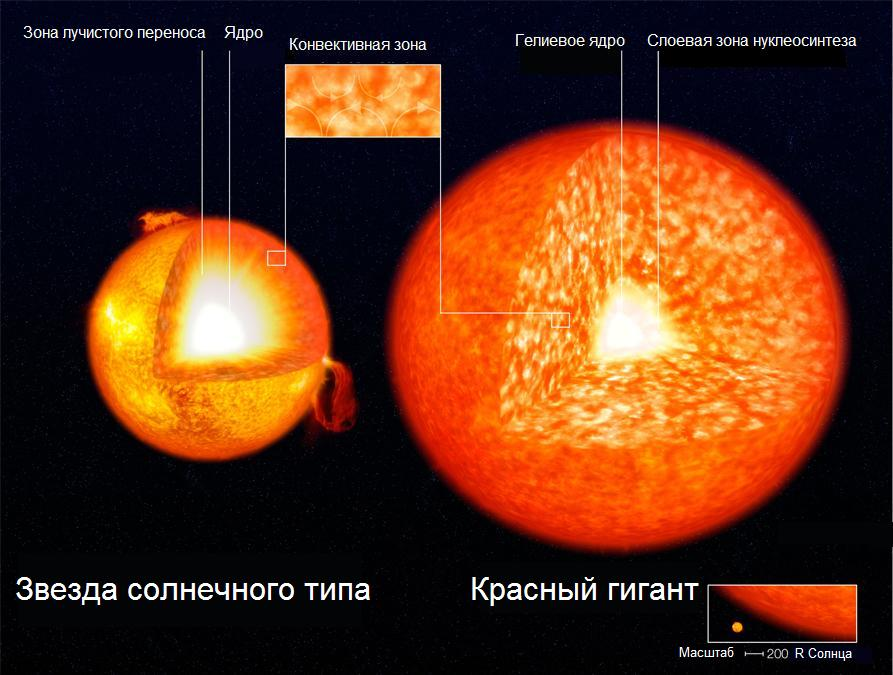 Russian translation of Italian translation of Image:Solar-type Red Giant structure.jpg